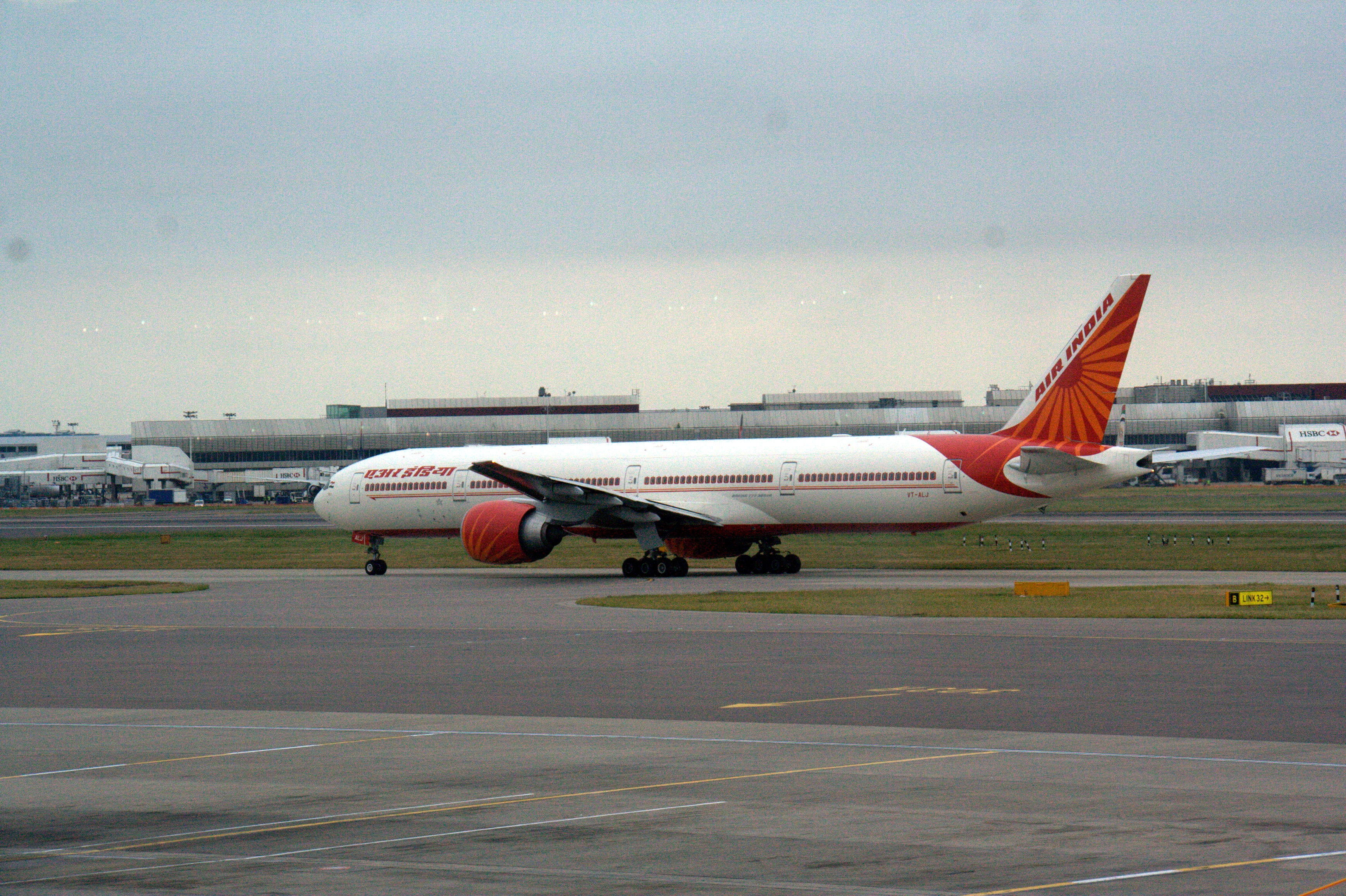 Air India Boeing 777 Bihar (VT-ALJ) at London Hethrow airport - This is a Boeing 777-337 (ER) aircraft